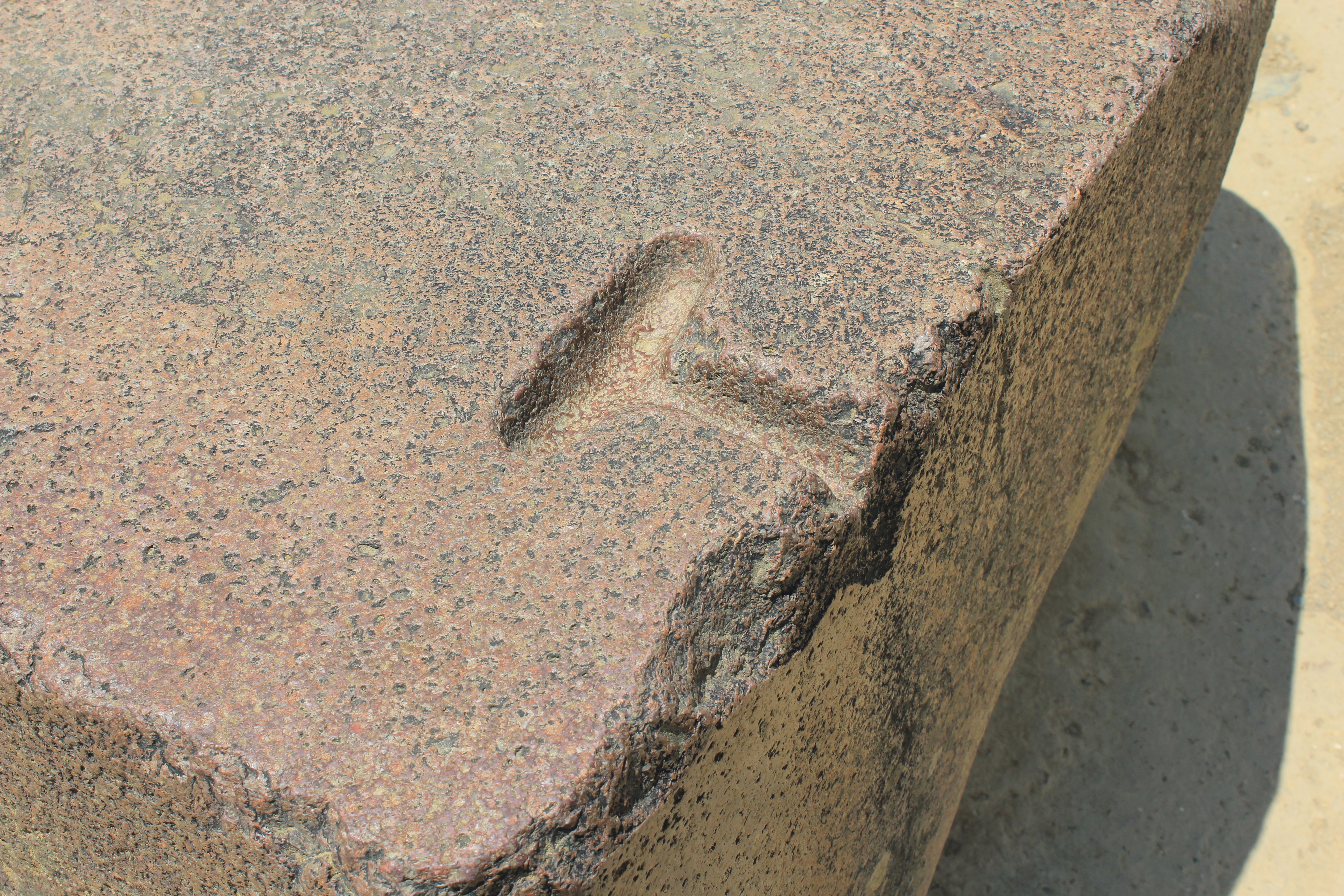 Ollantaytambo, (Quechua: Ullantaytampu) is a town and an Inca archaeological site in southern Peru some 72 kilometres (45 mi) by road northwest of the city of Cusco. It is located at an altitude of 2,792 metres (9,160 ft) above sea level in the district of